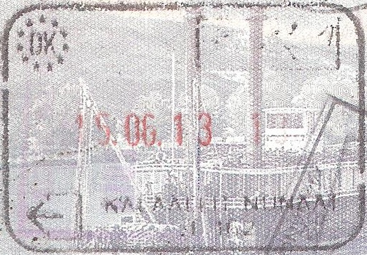 While flying from Greenland to Iceland, Greenland issues no entry stamps. Exit stamps are issued by request only, and they match the style of a stamp of mainland Denmark. The point of entry is Kalaallit Nunaat, indicating that the stamp is from Greenland instead of Denmark. Shown here in a US passport, overlapping a South African exit stamp.